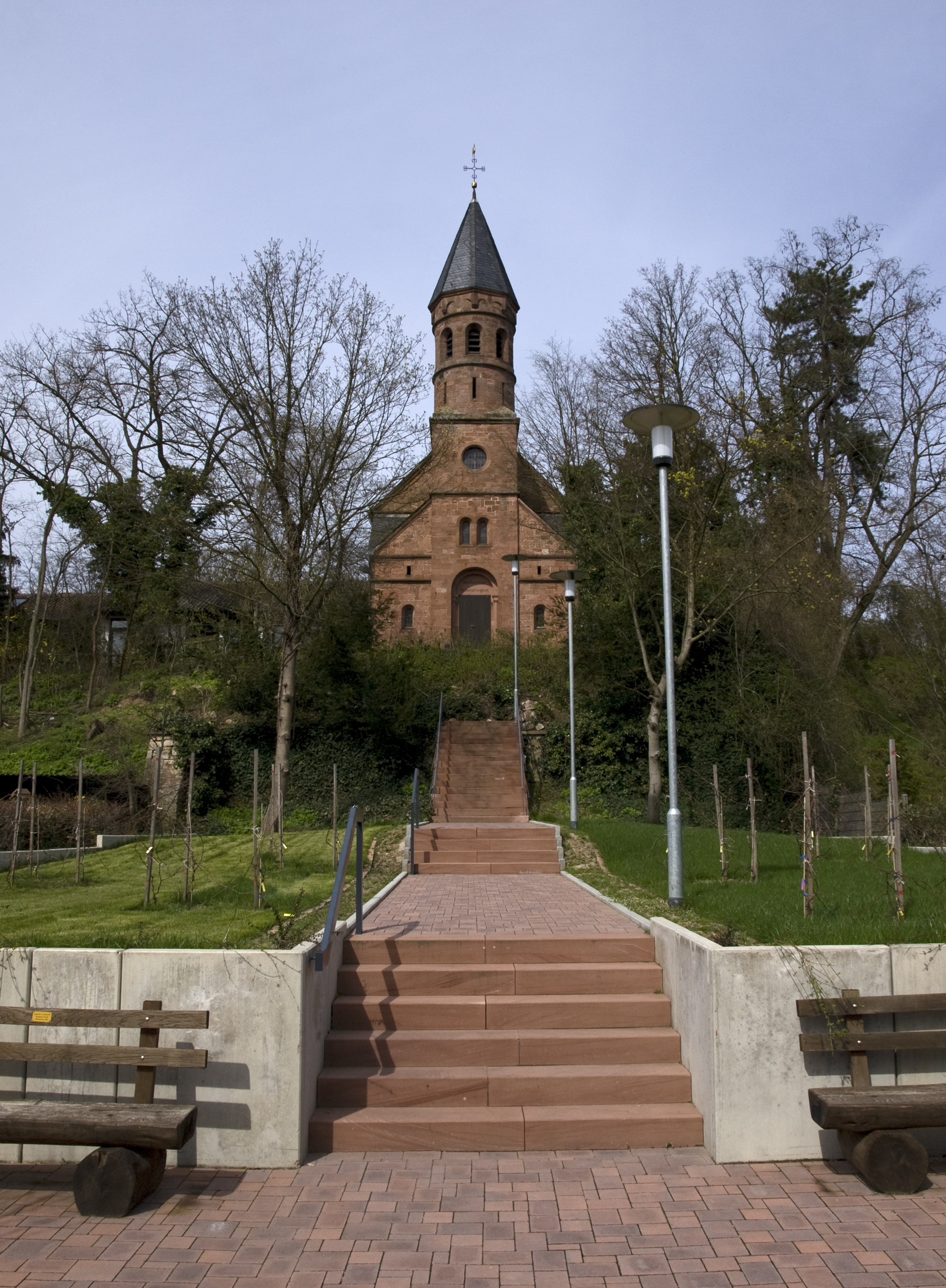 Lutheran church, Lorsch (1896)